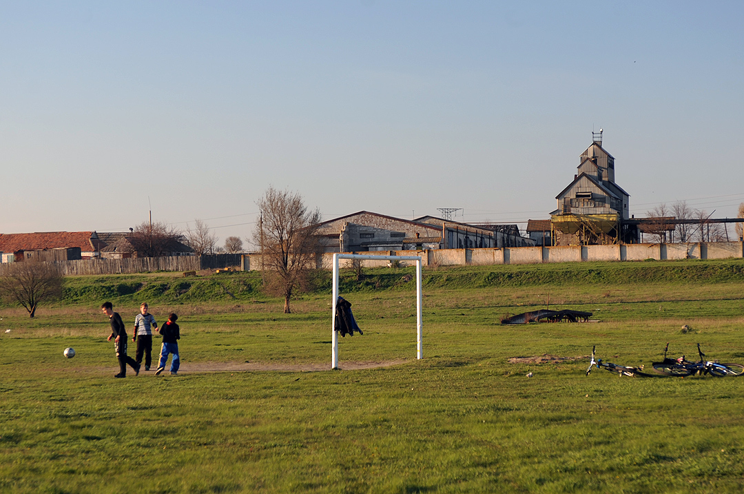 Stadium in Pavlivka, Marinka Raion, Donetsk Oblast, Ukraine